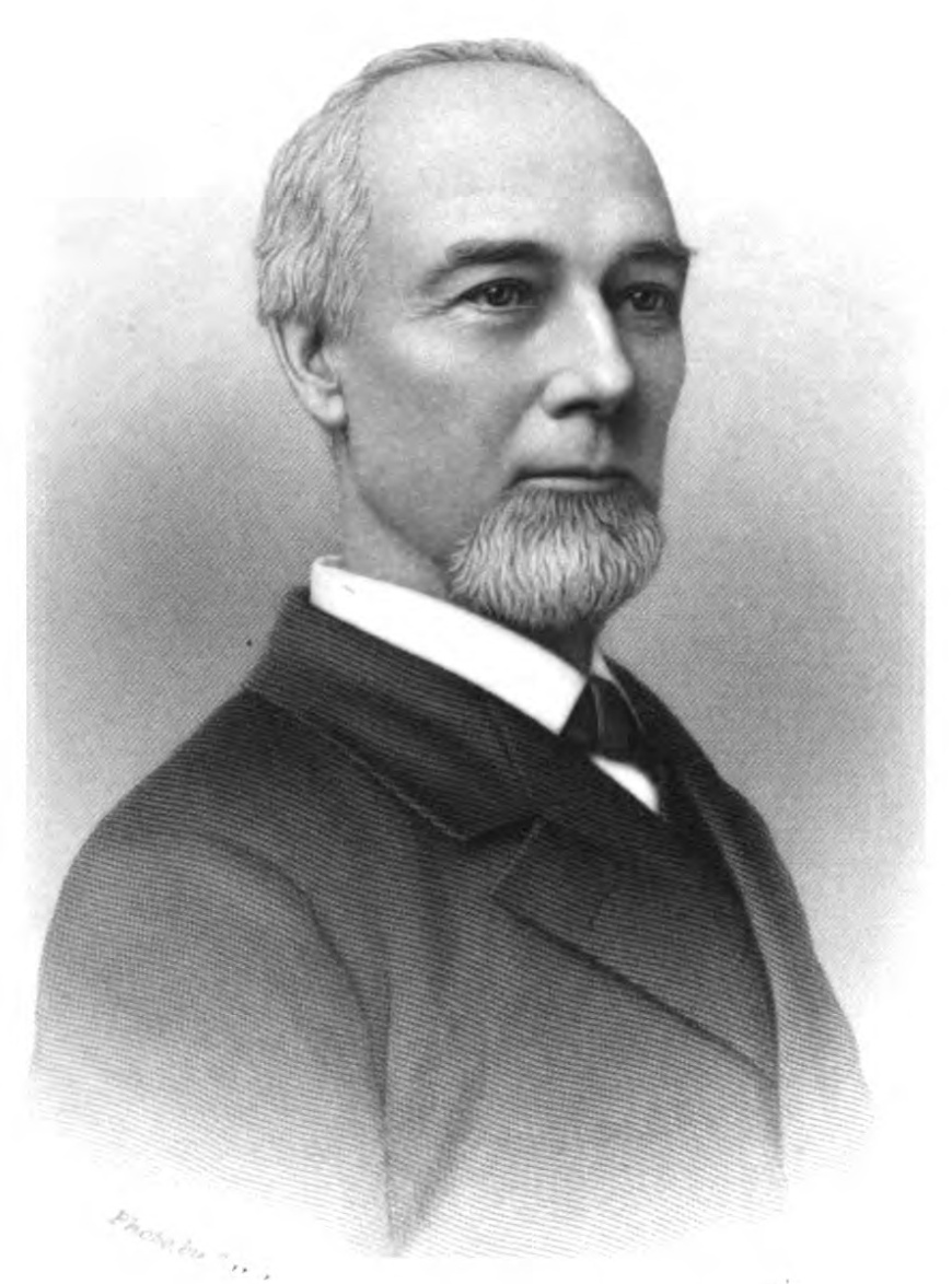 J. Malcolm Smith, a lawyer and county clerk for Westchester County, New York. Smith was also a partner in 1853-55 in his father's Hoboken shipbuilding firm, Isaac C. Smith & Son.